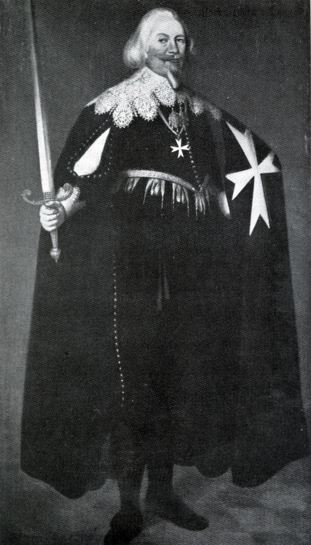 Count Adam von Schwarzenberg (1583-1641). Contemporary painting, now private collection of Dr. Alexander Rothkopf, Gummersbach.